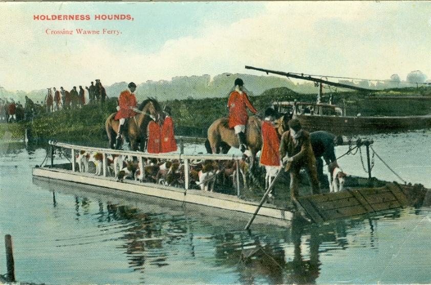 The huntsmen don their red coats for the Holderness Hunt. Here, we see some of them high and dry on Wawne Ferry with the Holderness Hounds in 1910. (Why not try searching our East Riding of Yorkshire Map for more historic images? ) (Copyright) We're happy for you to share this digital image within the spirit of Creative Commons. Please cite ' ' when reusing. Certain restrictions on high quality reproductions and commercial use of the original physical version apply. If unsure please